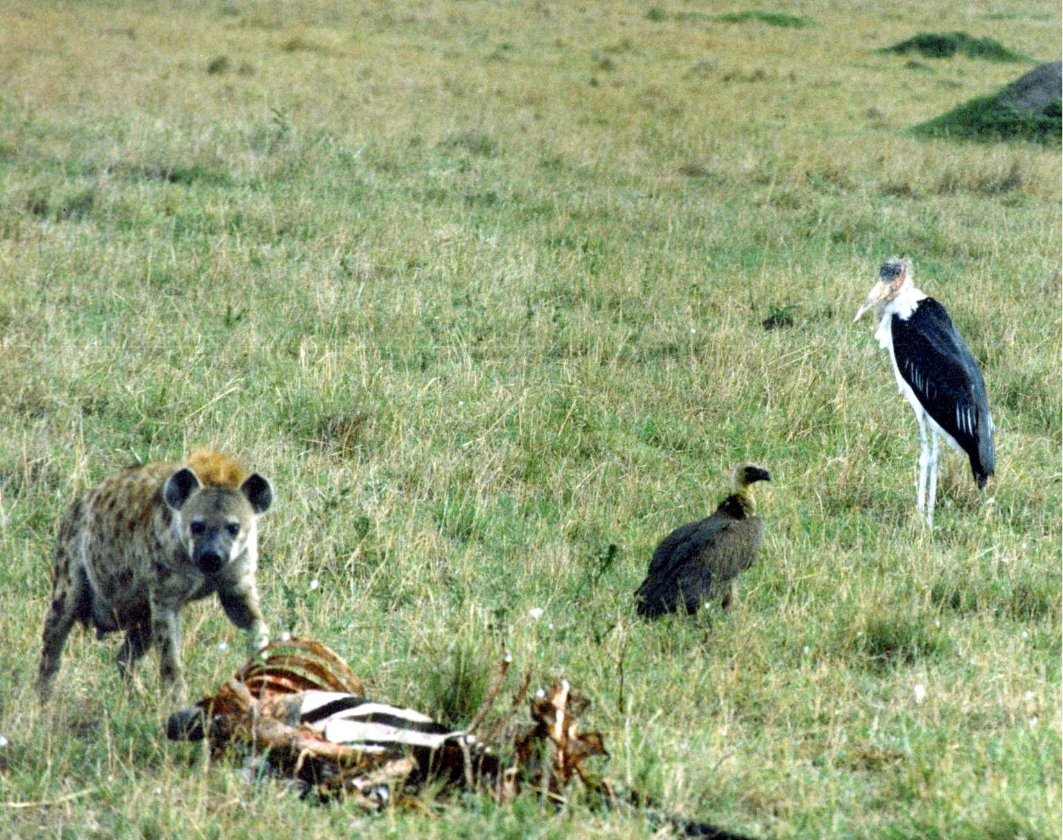 Hyena in Masai Mara, Kenya. The image is a scan of an old film print. Photograped by Brocken Inaglory